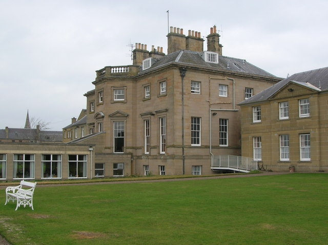 A view of Ednam House Hotel from the garden